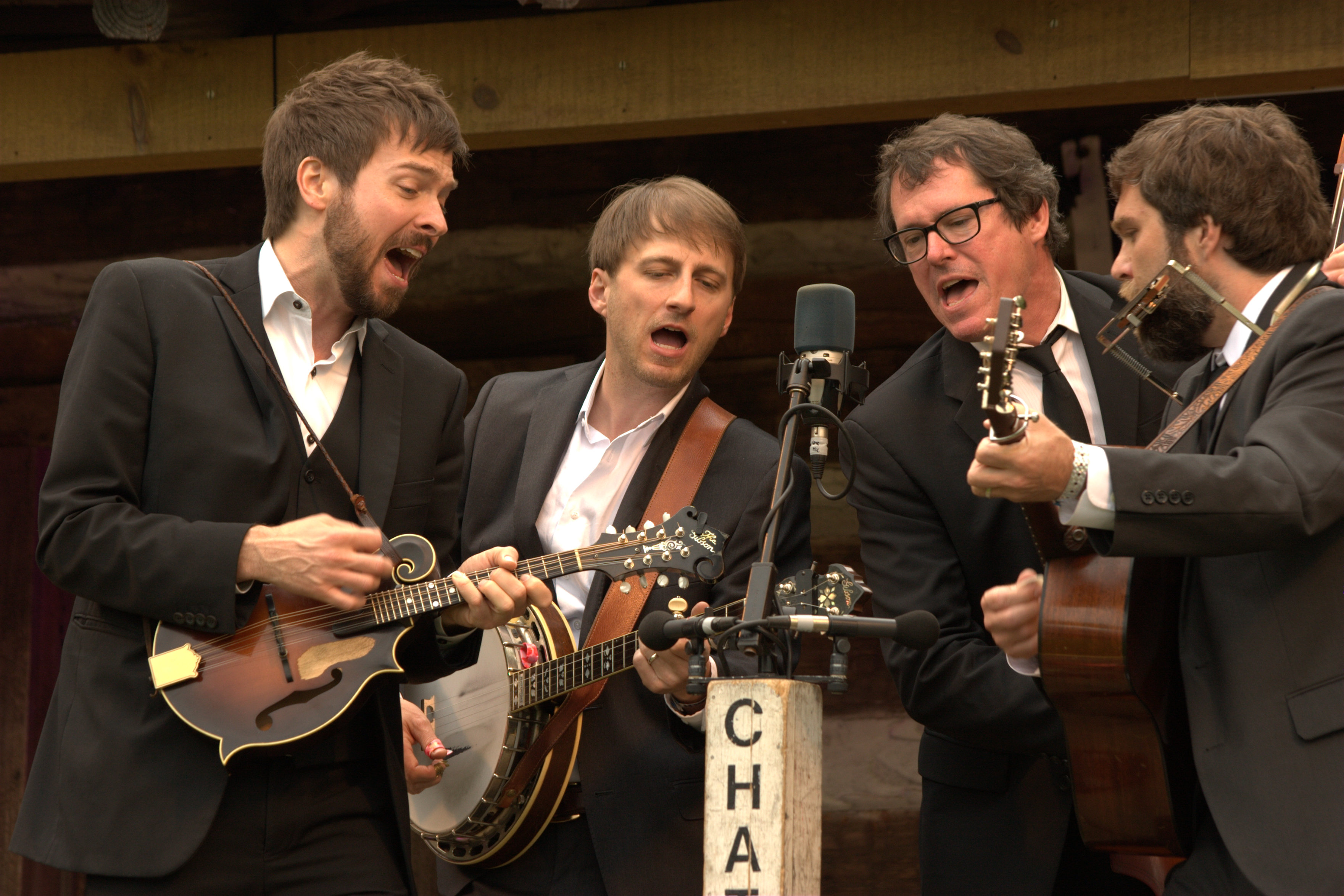 Chatham County Line performing at MerleFest in 2013 on the Cabin Stage.